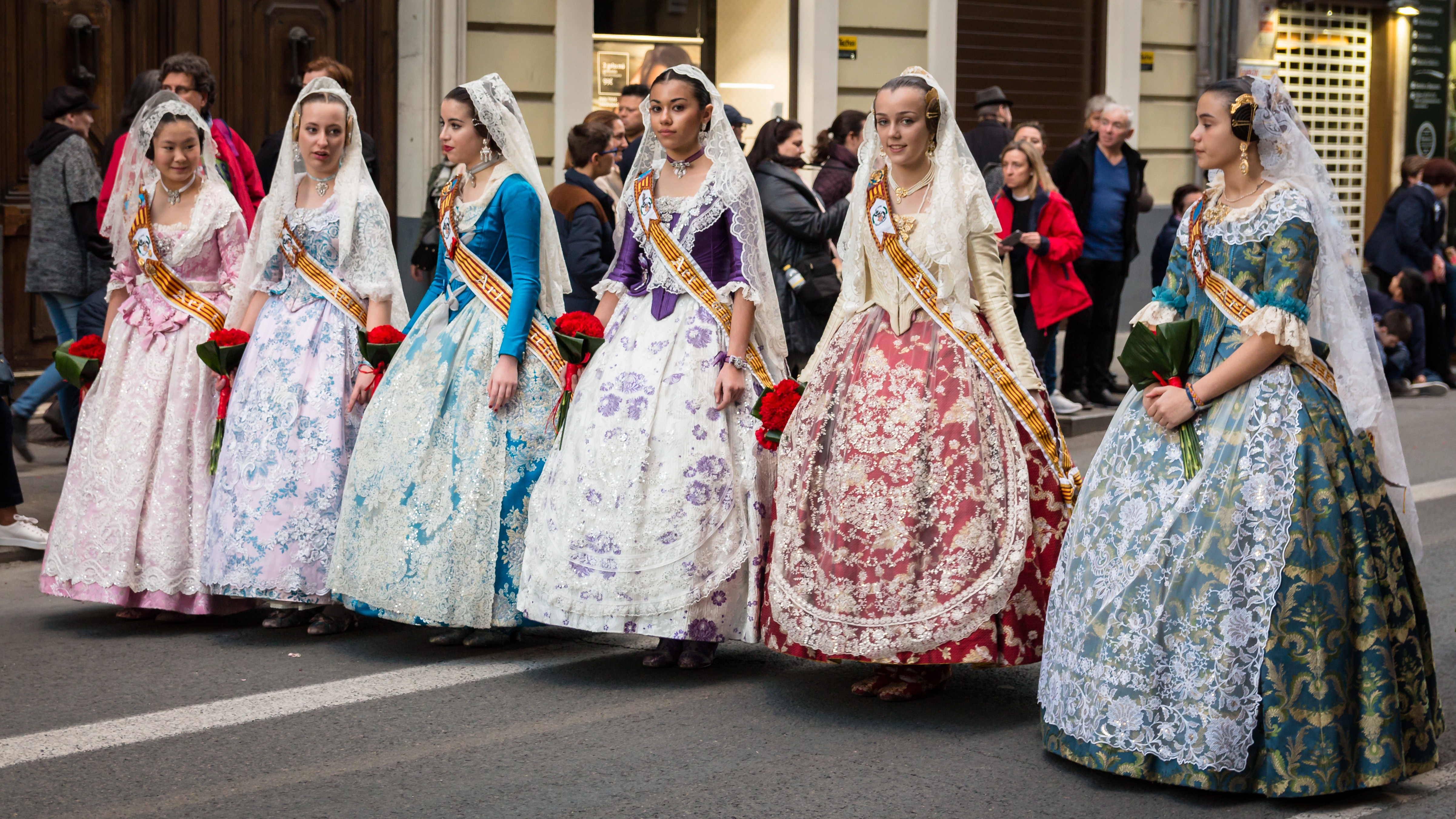 This is a photography of a Folklore festival in Spain (Wikidata id Q1143768).